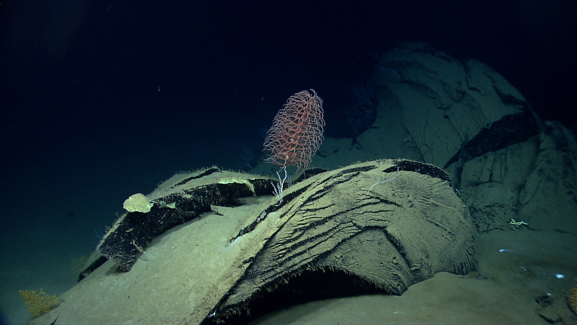 Here you can see a close up view of one of the “tar lily” “pedals.” The first asphalt extrusion had a number of corals and anemones colonizing it. These organisms allowed our science team to give these features an approximate age on the order of tens to hundreds of years old.